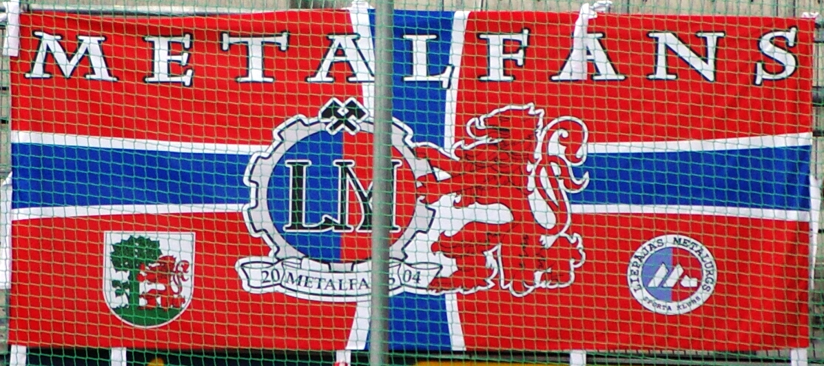 Euro League away match vs.Red Bull Salzburg